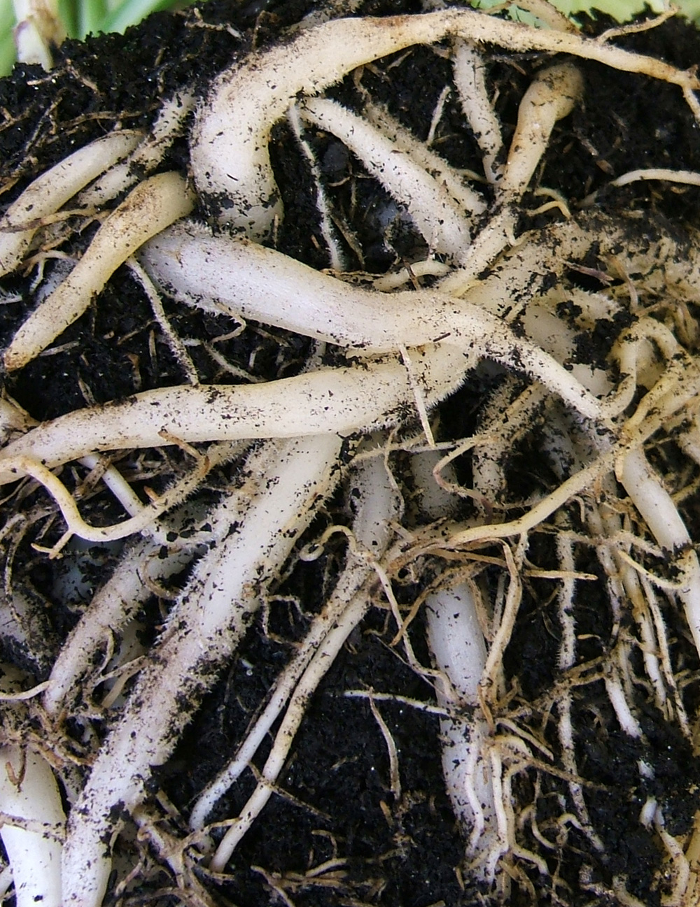 Spider Plant